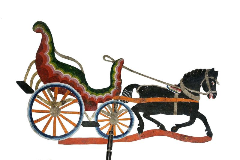 Wayang kulit figure, representing a horse cart with a horse